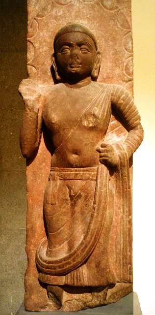 The Bodhisattva Siddhartha Gautama, 2nd century CE.